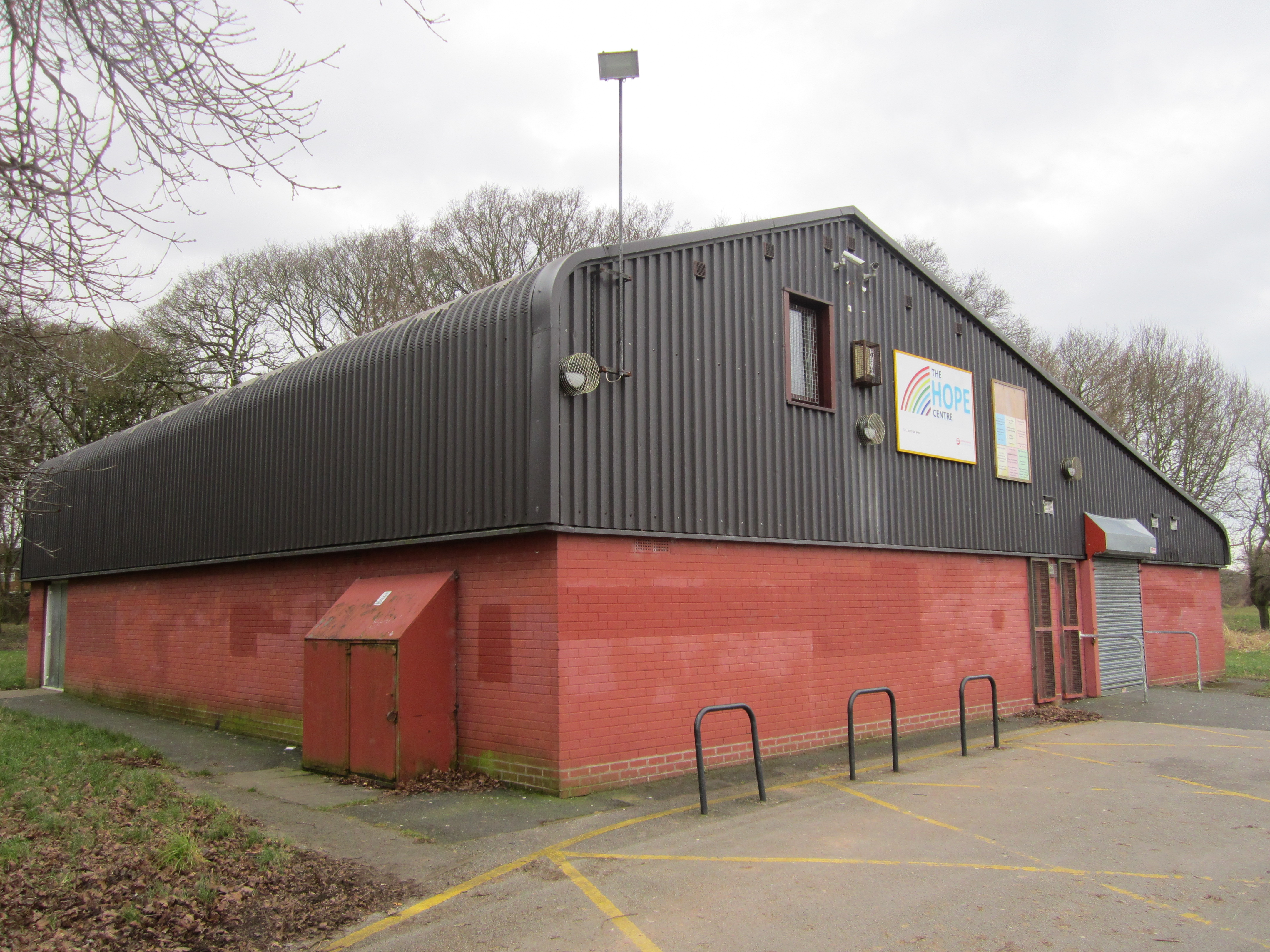 The Hope Centre, Fishers Lane, Pensby, Wirral, Merseyside, England.